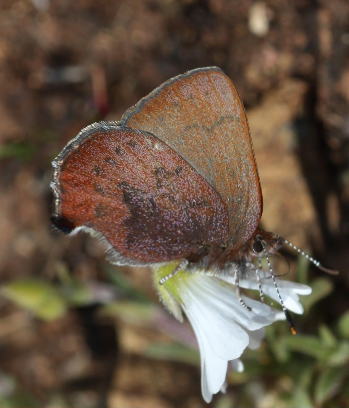 Brown Elfin on Cerastium arvense flower